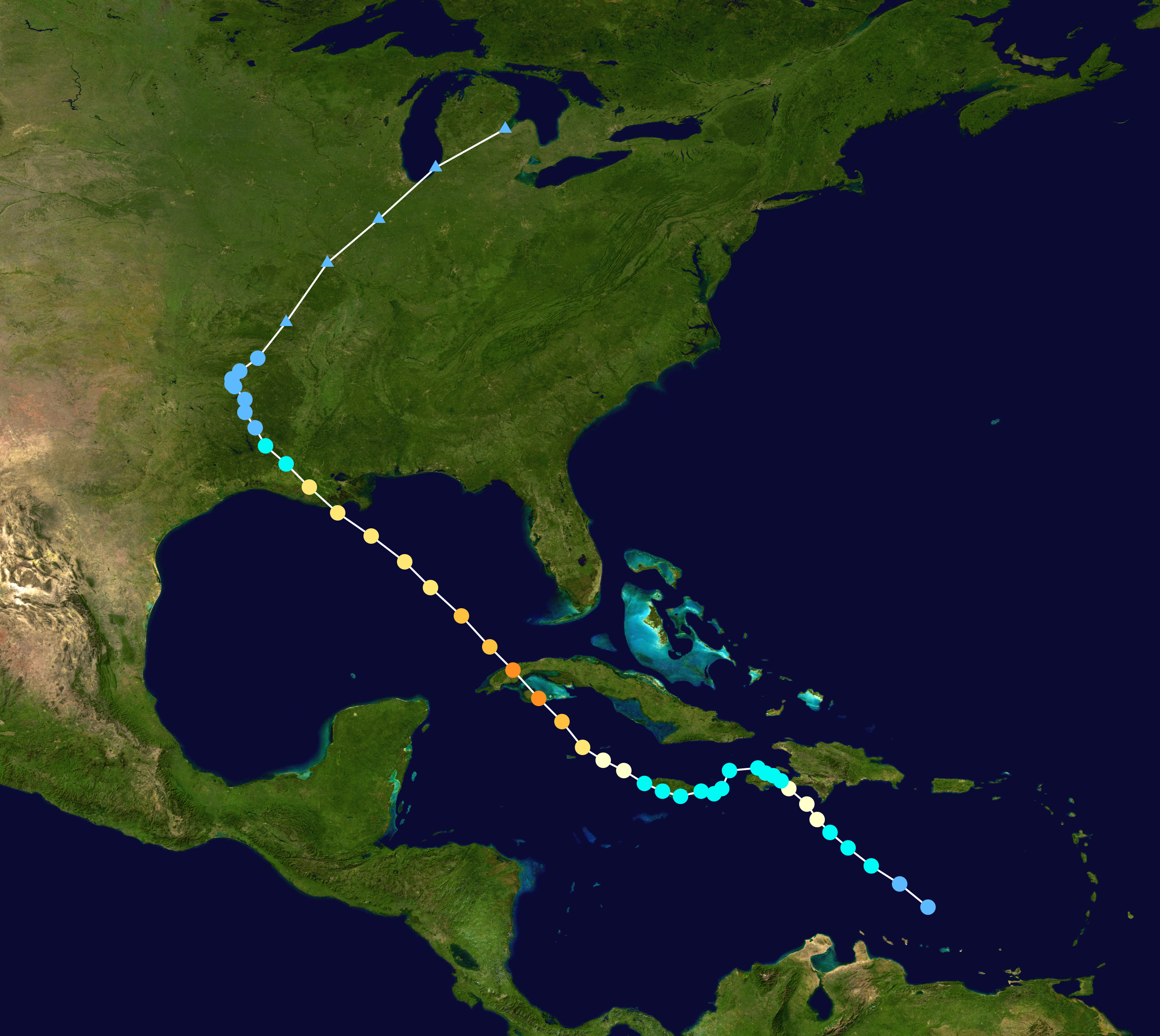 Track map of Hurricane Gustav of the 2008 Atlantic hurricane season. The points show the location of the storm at 6-hour intervals. The colour represents the storm's maximum sustained wind speeds as classified in the Saffir–Simpson scale (see below), and the shape of the data points represent the nature of the storm, according to the legend below. Saffir–Simpson scale Tropical depression≤38 mph≤62 km/h Category 3111–129 mph178–208 km/h Tropical storm39–73 mph63–118 km/h Category 4130–156 mph209–251 km/h Category 174–95 mph119–153 km/h Category 5≥157 mph≥252 km/h Category 296–110 mph154–177 km/h Unknown Storm type Tropical cyclone Subtropical cyclone Extratropical cyclone / Remnant low / Tropical disturbance / Monsoon depression